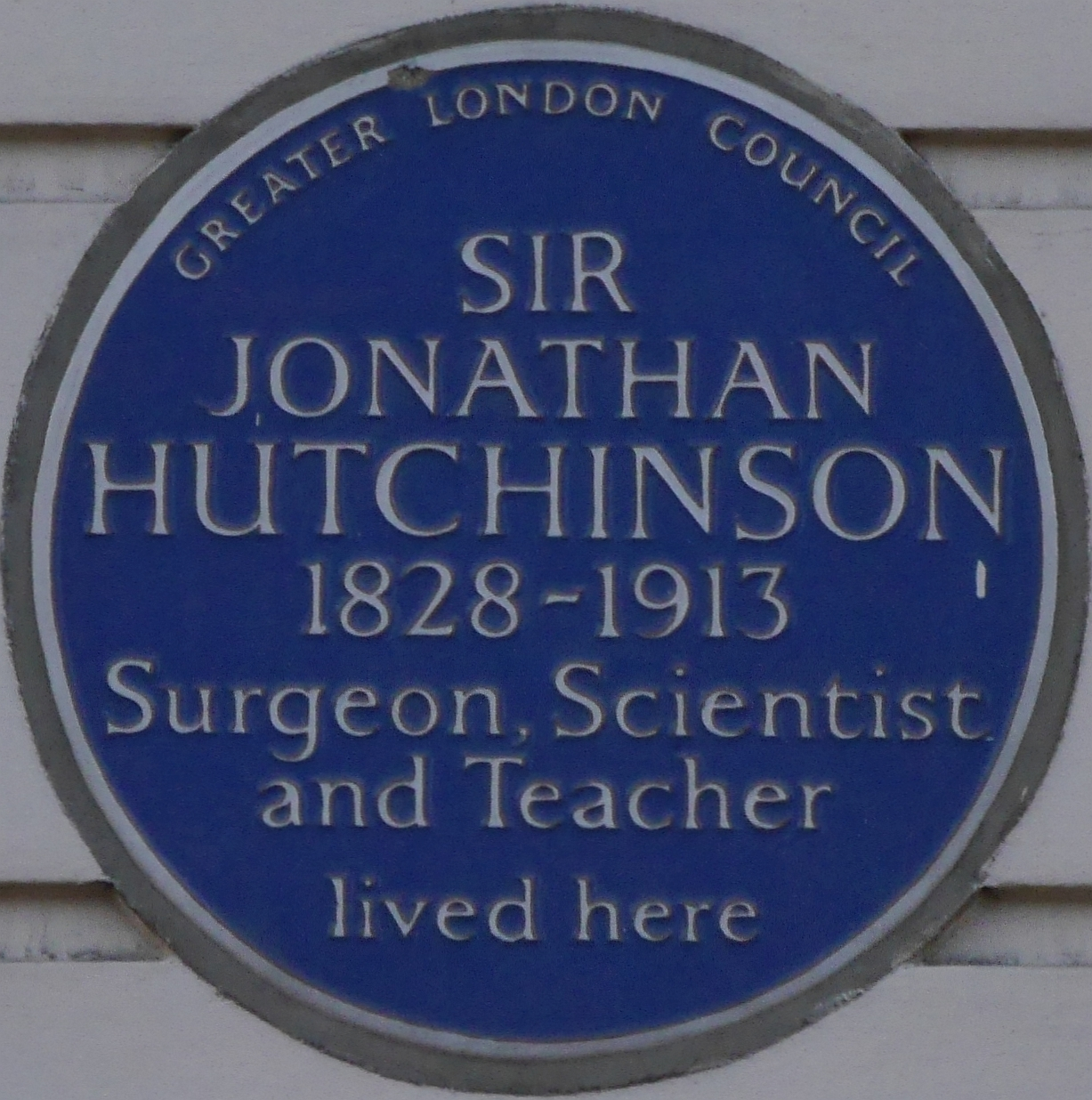 Jonathan Hutchinson 15 Cavendish Square blue plaque